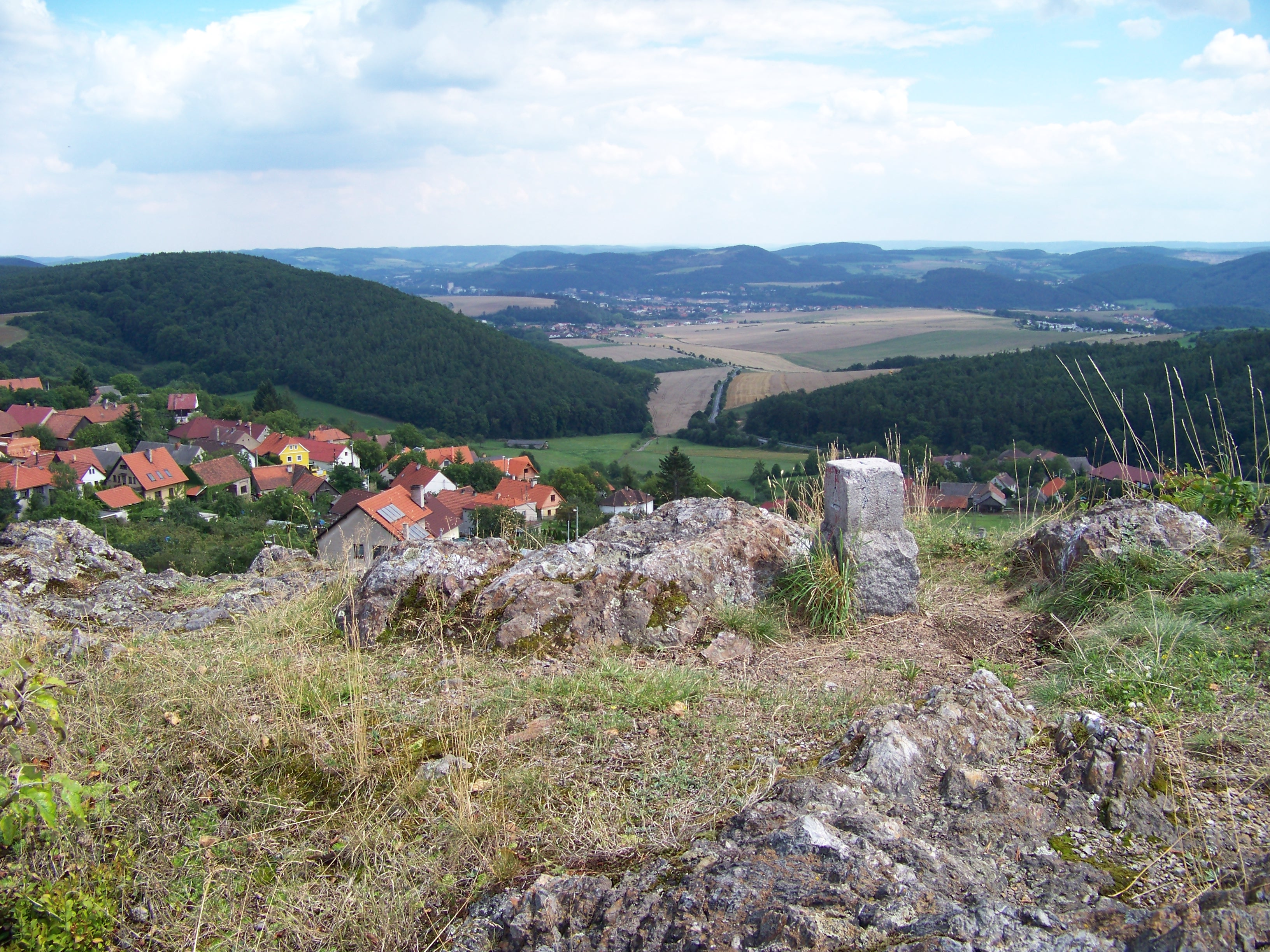 Svatá, Beroun District, Central Bohemian Region, the Czech Republic. Svatá Rock.